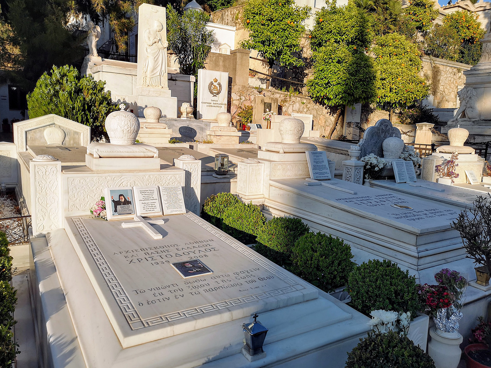 Christodoulos's tombstone at the First Cemetery of Athens.